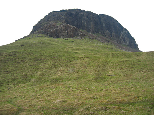 Preshal Beag A big lump of lava towering out of the moorland south of Talisker. At 345m, it is higher than its neighbour, Preshal Mor. Both hills contain similar exposures of a 100m thick flow of columnar jointed olivine tholeiite.